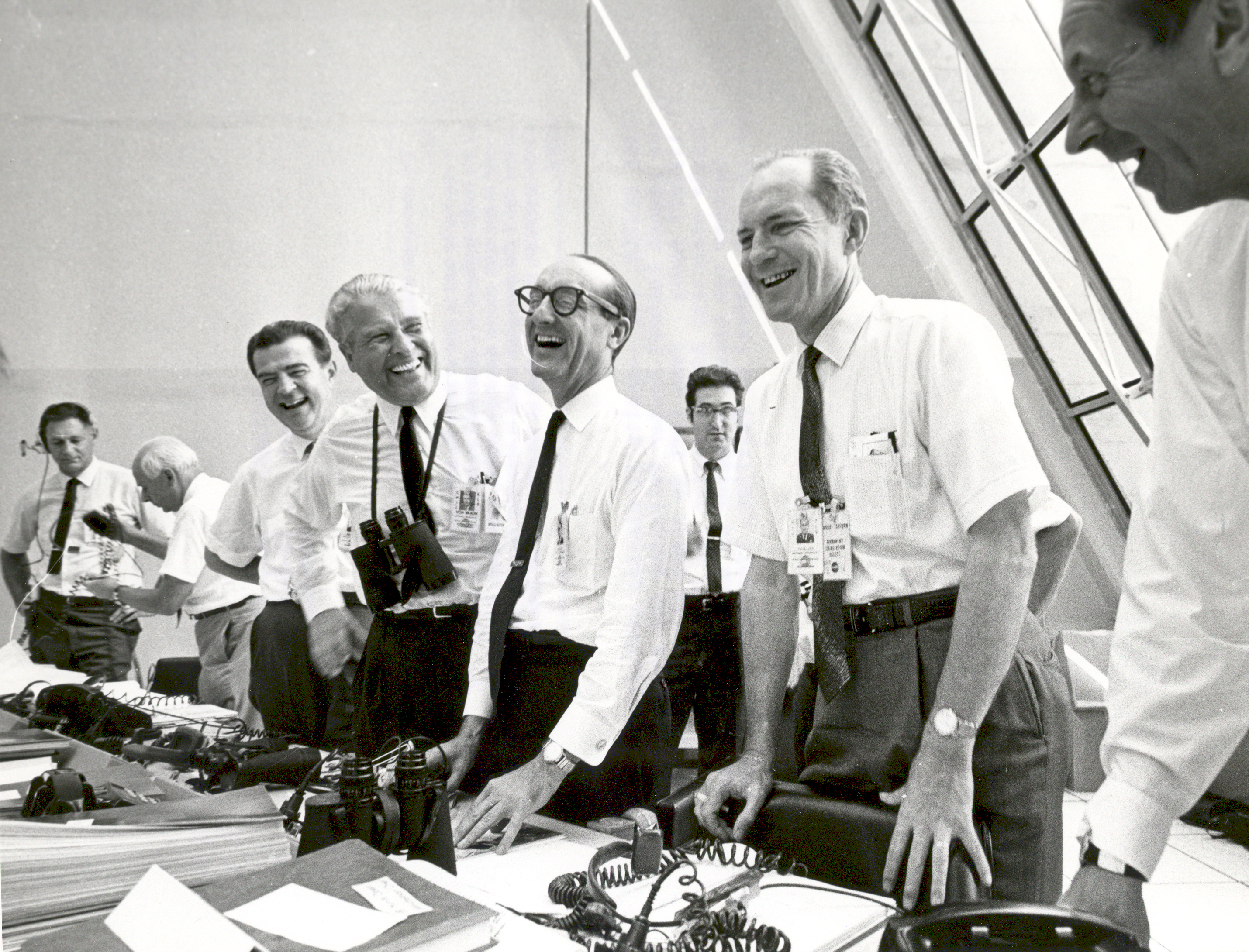 Apollo 11 mission officials relax in the Launch Control Center following the successful Apollo 11 liftoff on July 16, 1969. From left to right are: Charles W. Mathews, Deputy Associate Administrator for Manned Space Flight; Dr. Wernher von Braun, Director of the Marshall Space Flight Center; George Mueller, Associate Administrator for the Office of Manned Space Flight; Lt. Gen. Samuel C. Phillips, Director of the Apollo Program